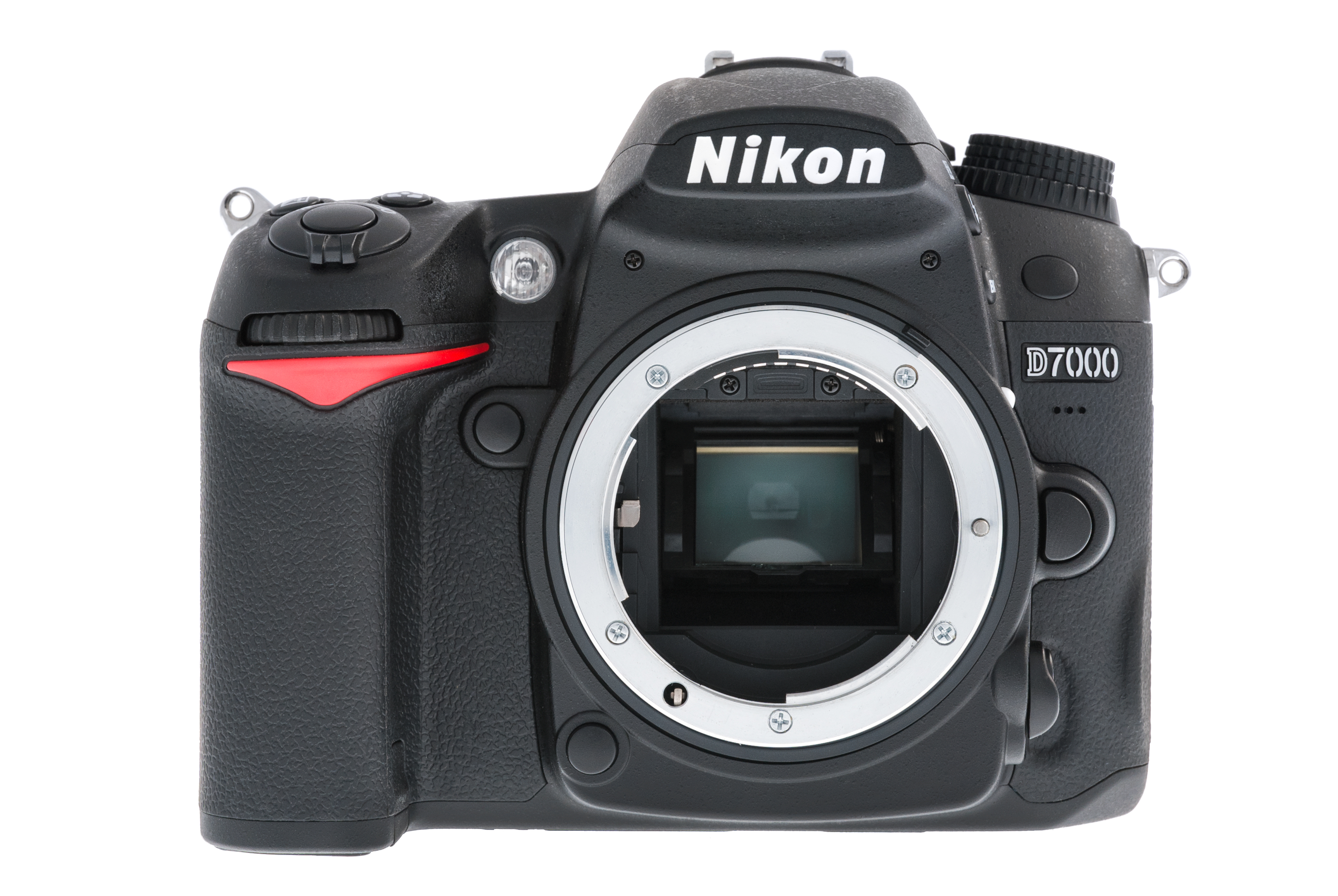 The Nikon D7000 is a 16.2 megapixel digital single-lens reflex camera.